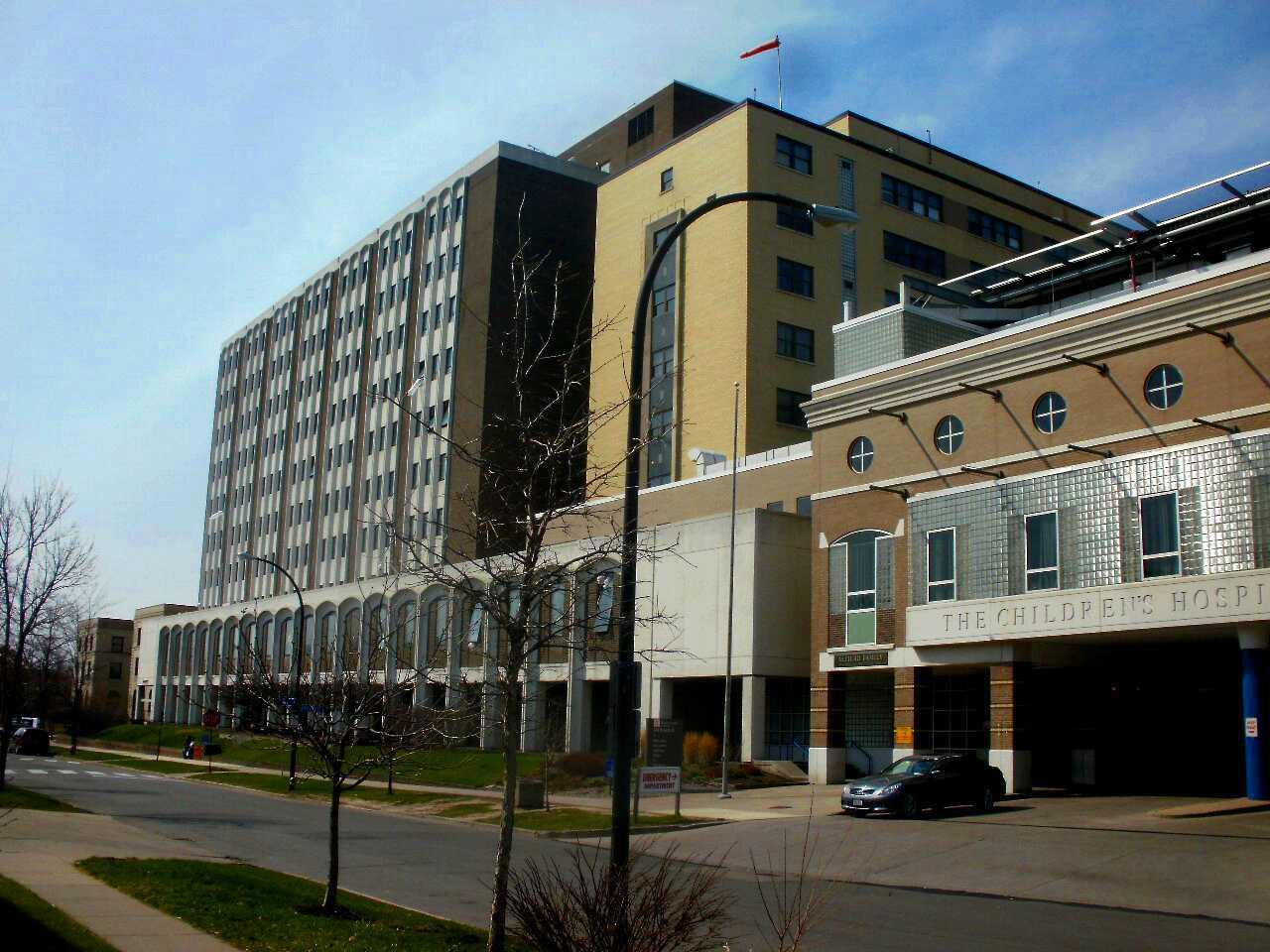 Established in 1892, Women & Children's Hospital of Buffalo is among the first institutions of its kind in the United States.